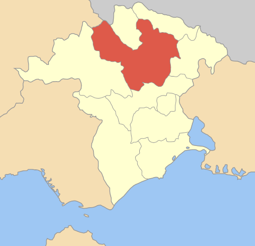 Locator map of Myki municipality (Δήμος Μύκης) in Xanthi prefecture (Νομός Ξάνθης) in Greece.